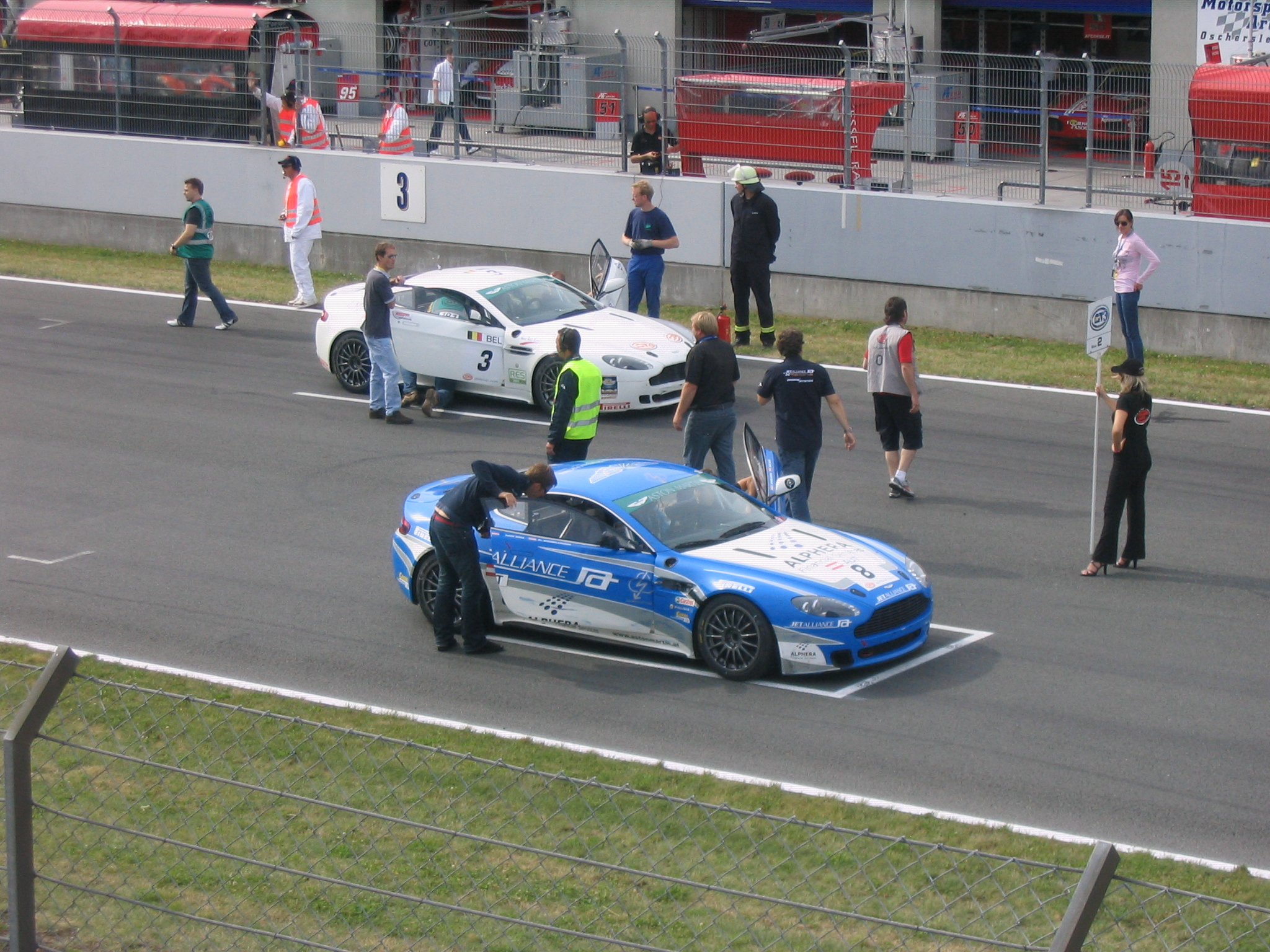 Two Aston Martin V8 Vantage N24 standing in third row in the starting grid of the second race of the GT4 European Cup in Oschersleben 2008.